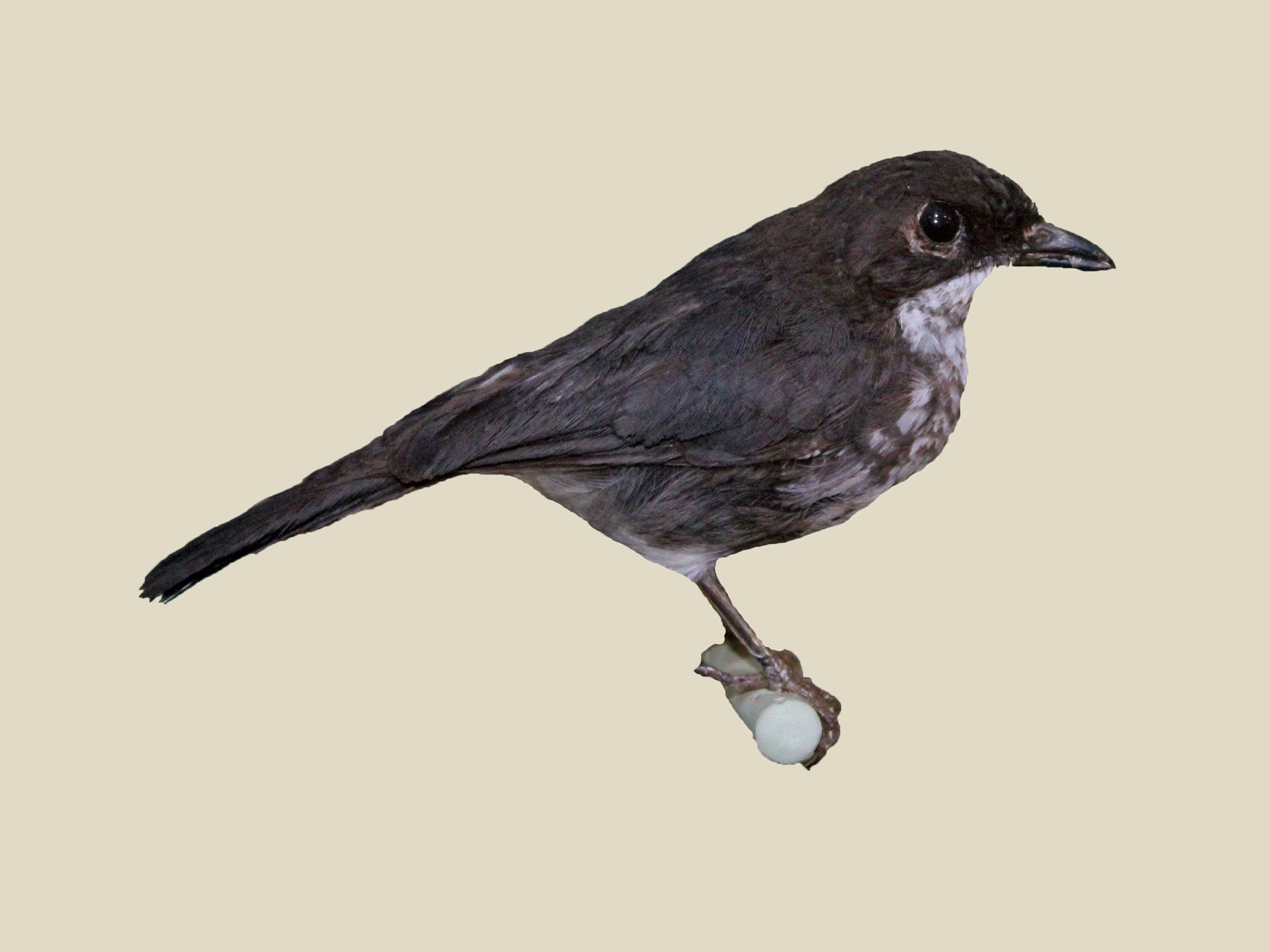 Fraser's Forest Flycatcher (Fraseria ocreata); also African Forest-Flycatcer. Photograph of a specimen at Nairobi National Museum in Nairobi, Kenya.